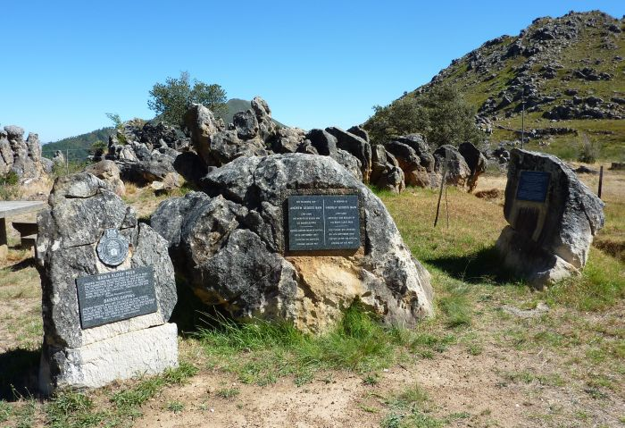 Monument at the Bain's Kloof Pass, South-Africa